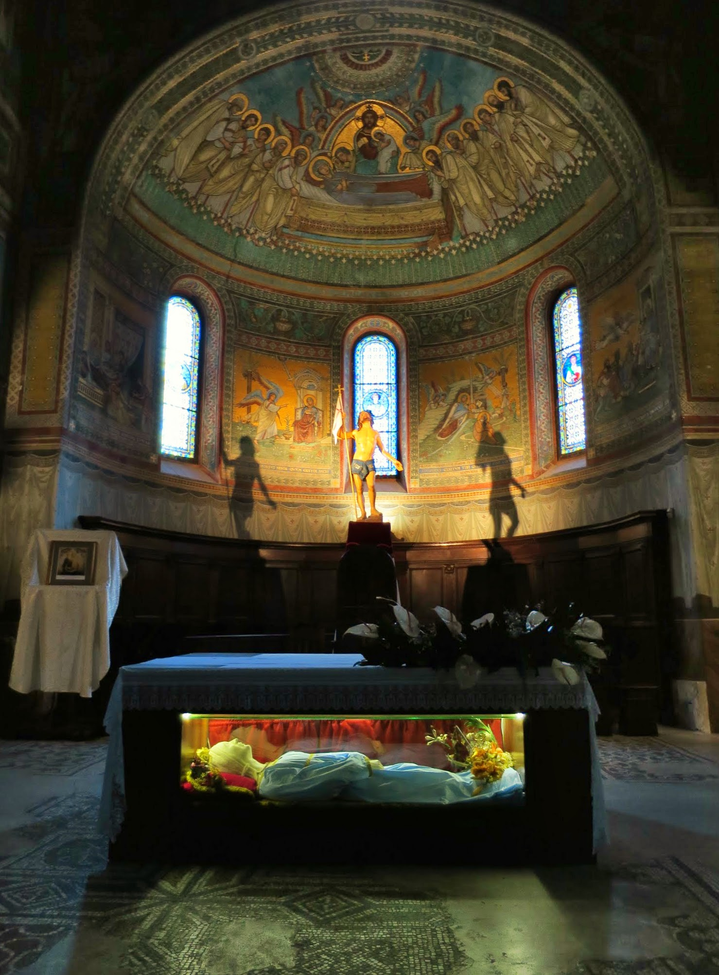 Altar space of Duomo San Secondiano